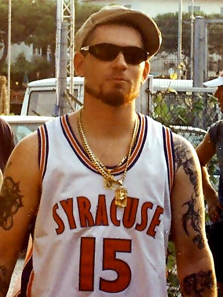 Everlast from House of Pain.